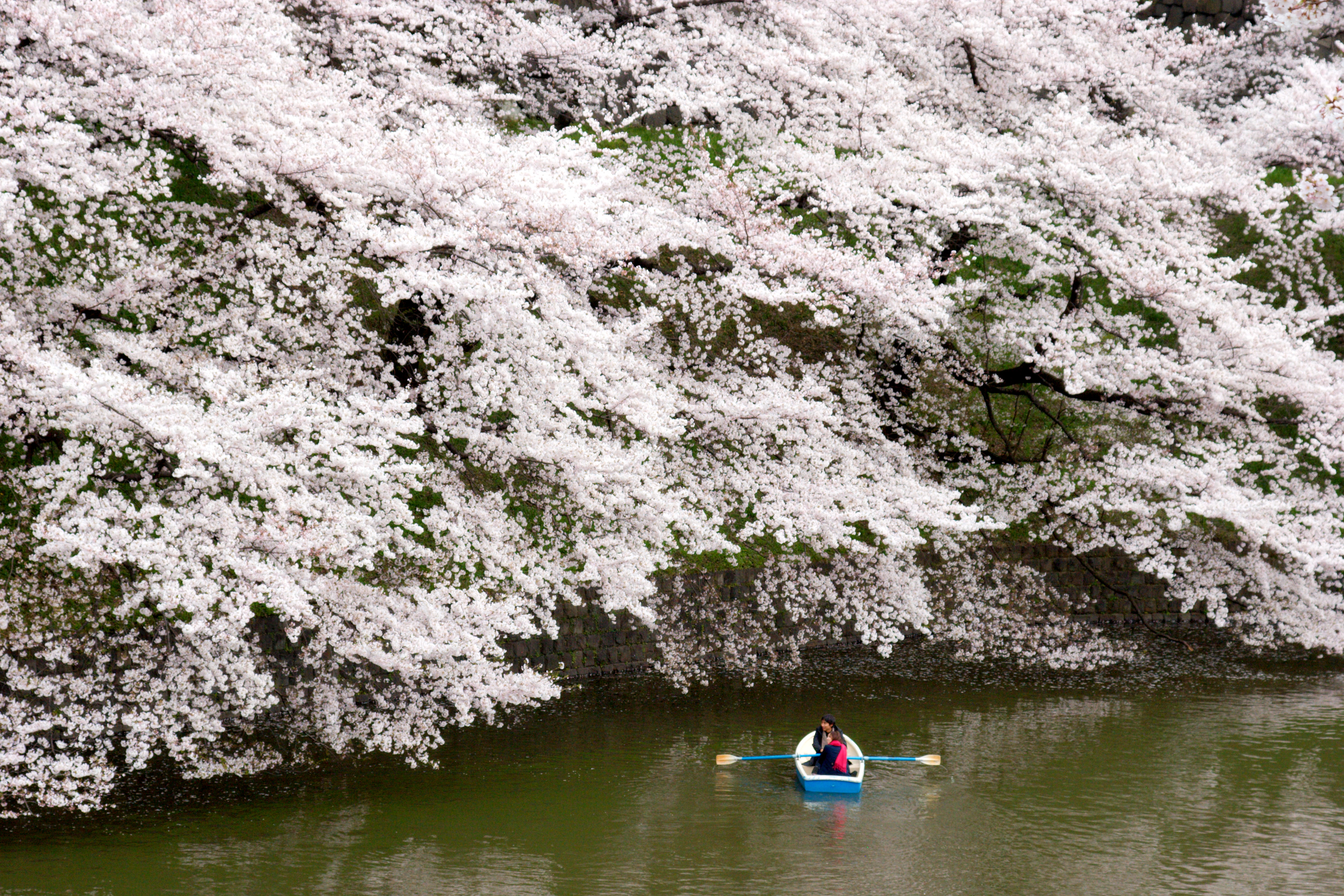 Chidorigafuchi